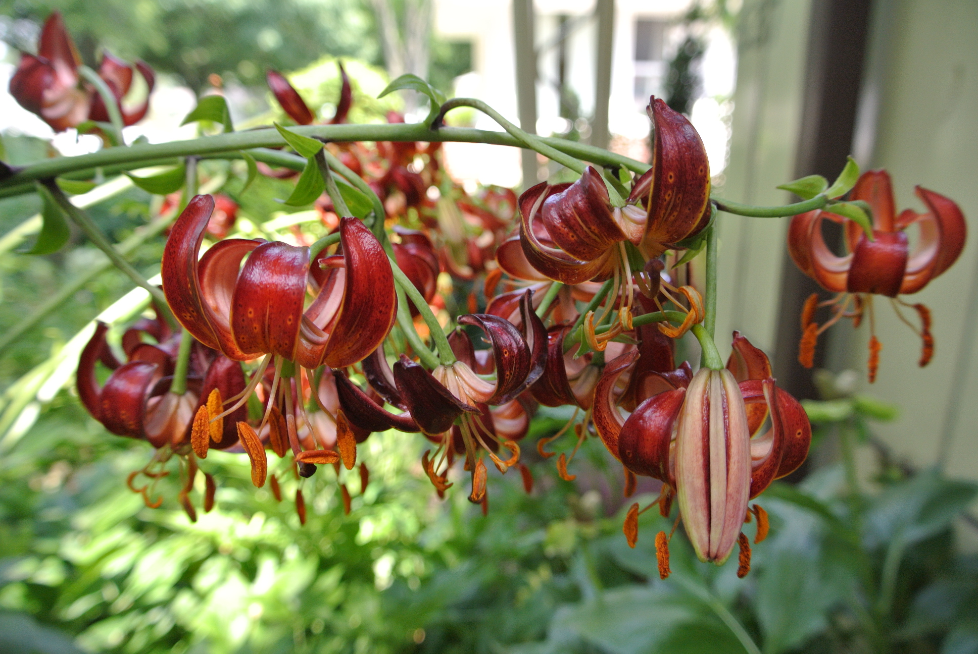 Lilium dalhansonii flowering in the garden of botanist Robert R. Kowal in Madison, Wisconsin